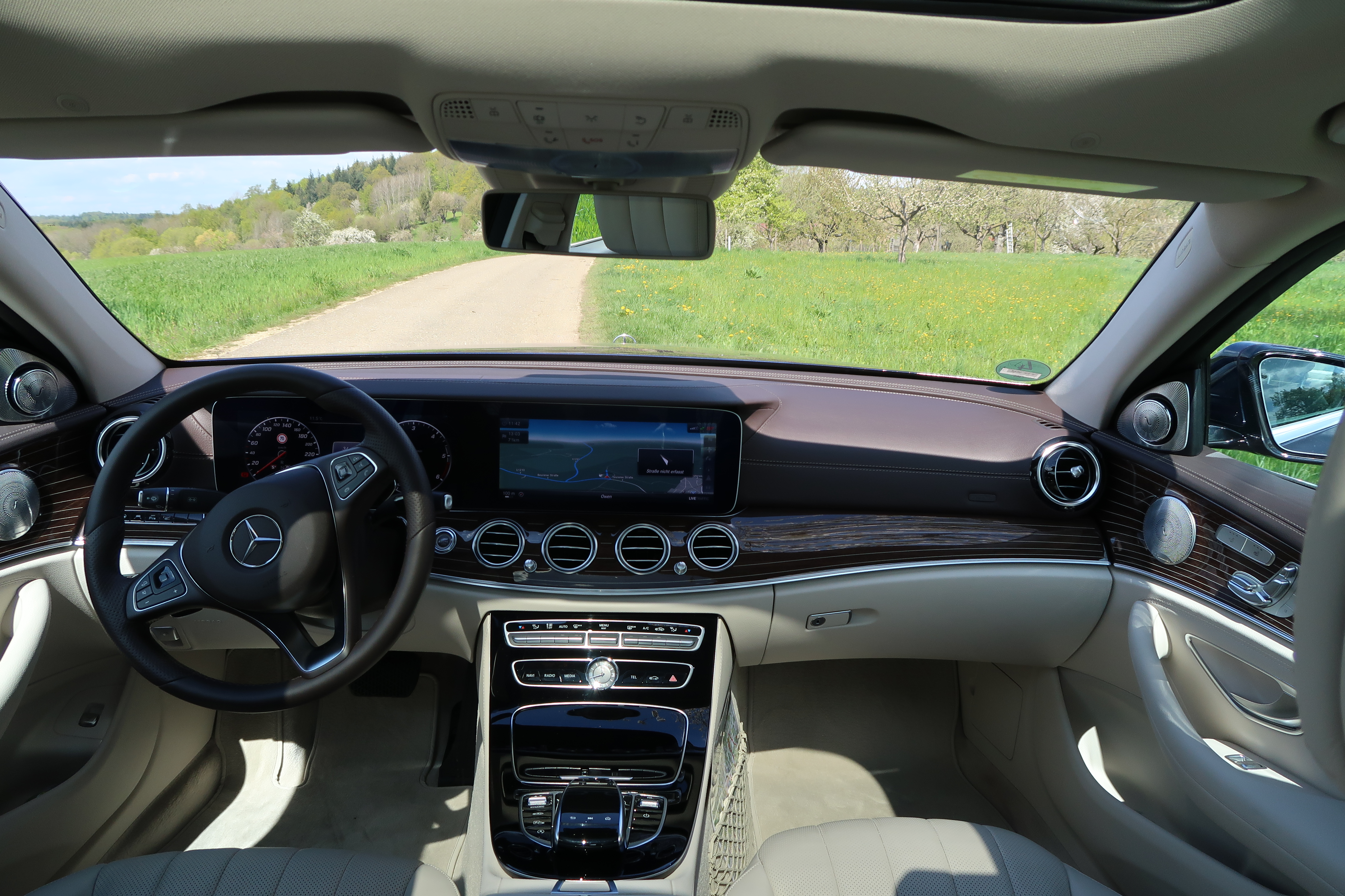 Mercedes-Benz W213 (E-class, 2016)